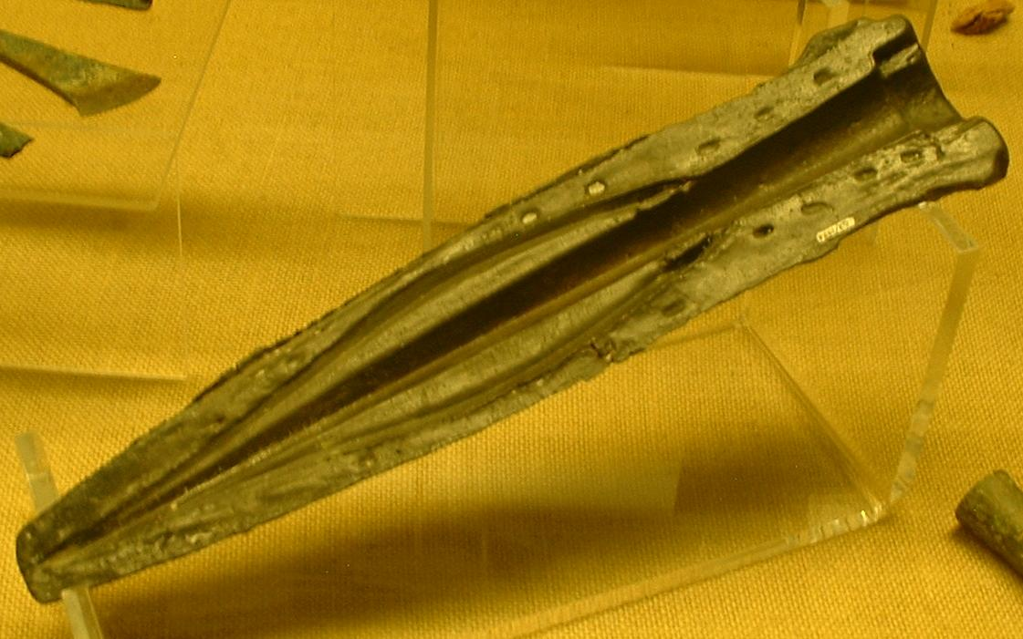 One half of a bronze mould for casting a socketed spear head, found at East Pennard, England. Dated to the period 1400-1000 BC, it is without parallels. Photographed in the Somerset County Museum, Taunton, on 29-Oct-05.